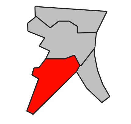 Selfdrawn map of a neighbourhood in Steenbergen.